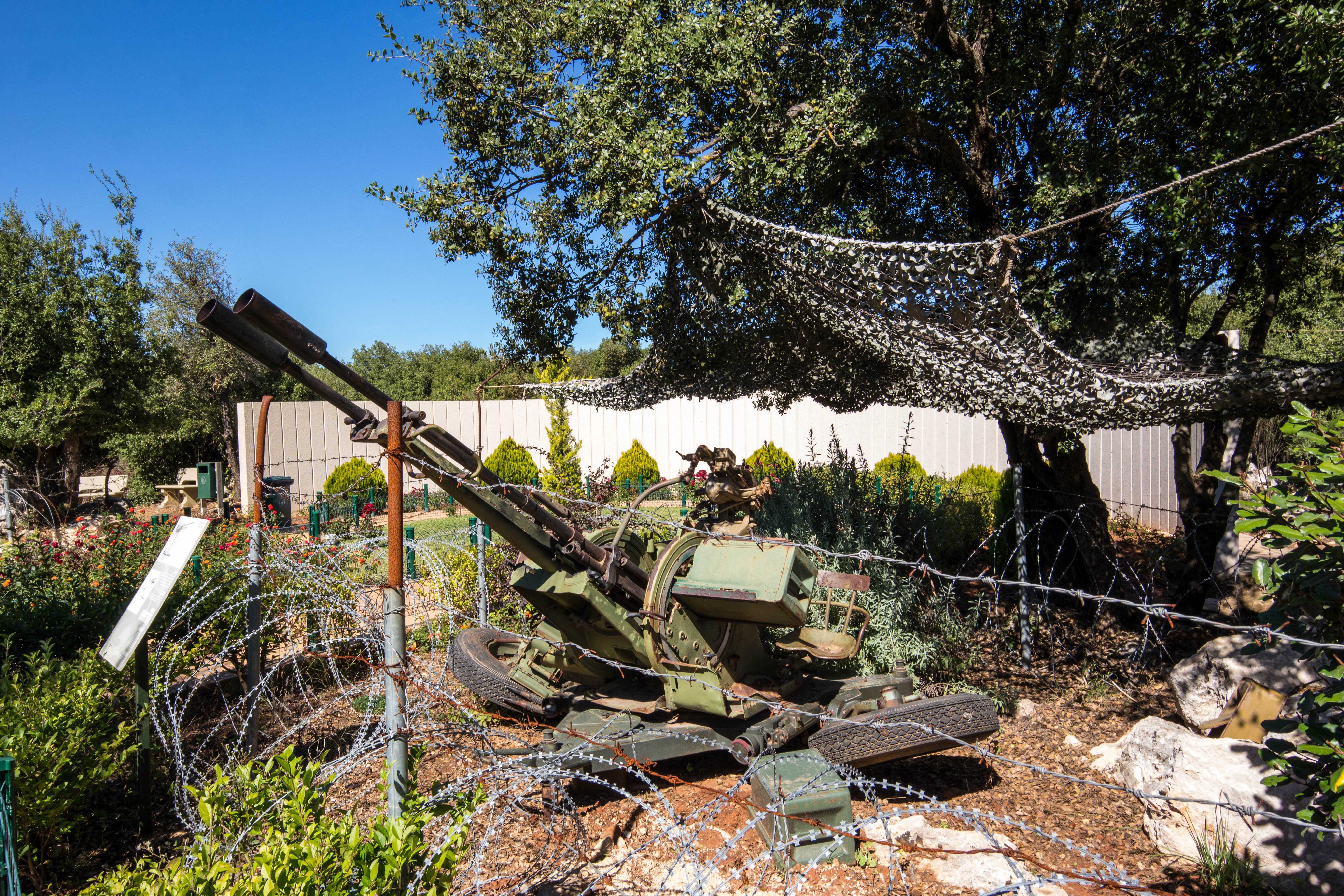 ZU-23-2 anti-aircraft gun at Hezbollah's Tourist Landmark of the Resistance museum in Lebanon.